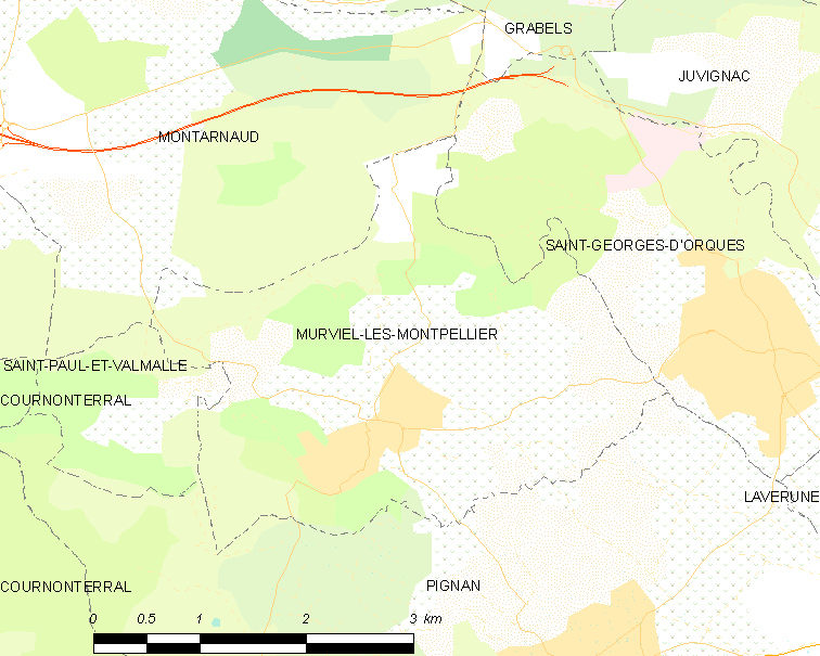 Map commune FR insee code 34179.png - Murviel-lès-Montpellier